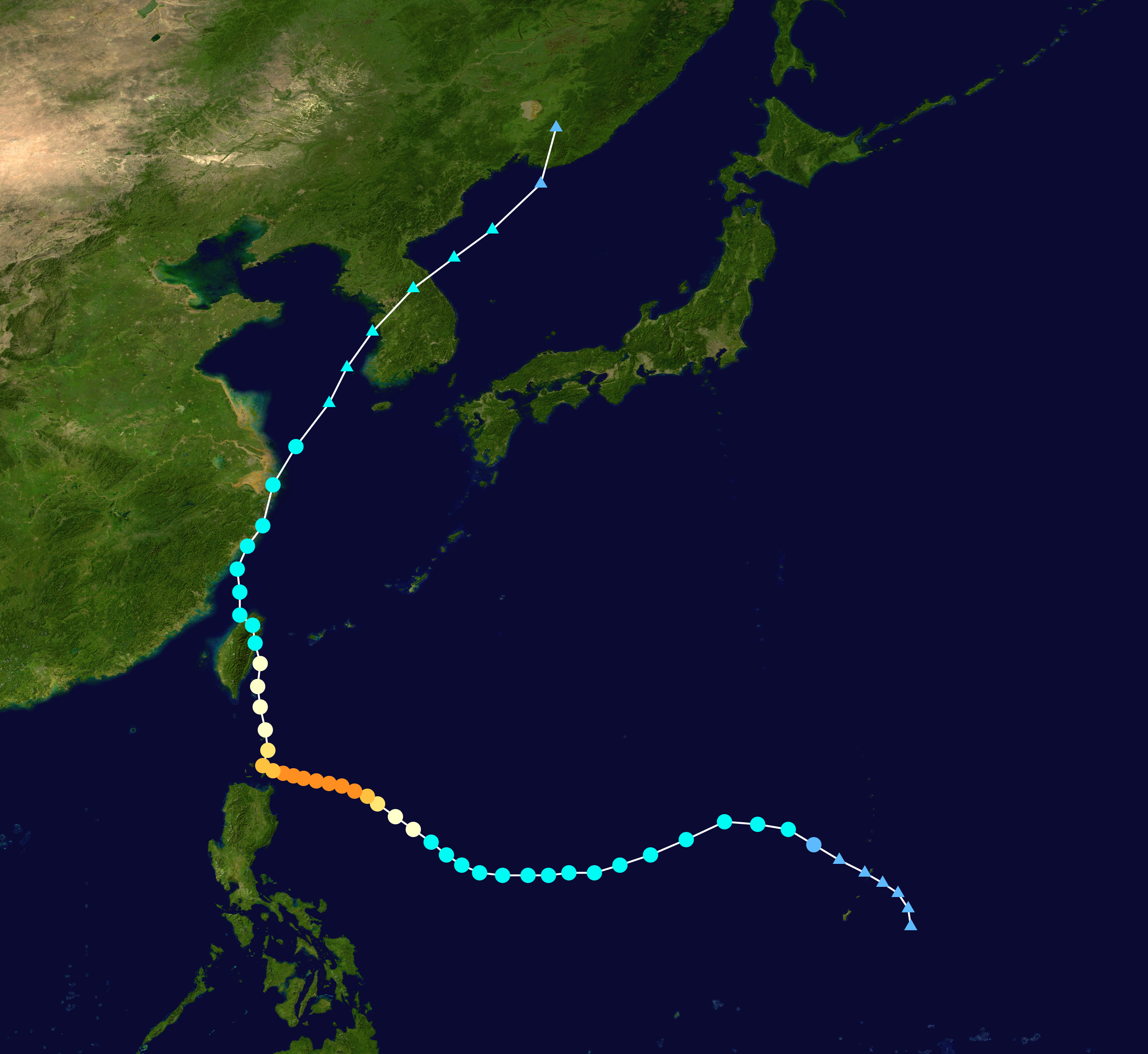 Typhoon Mindulle (2004) track. Uses the color scheme from the Saffir-Simpson Hurricane Scale.